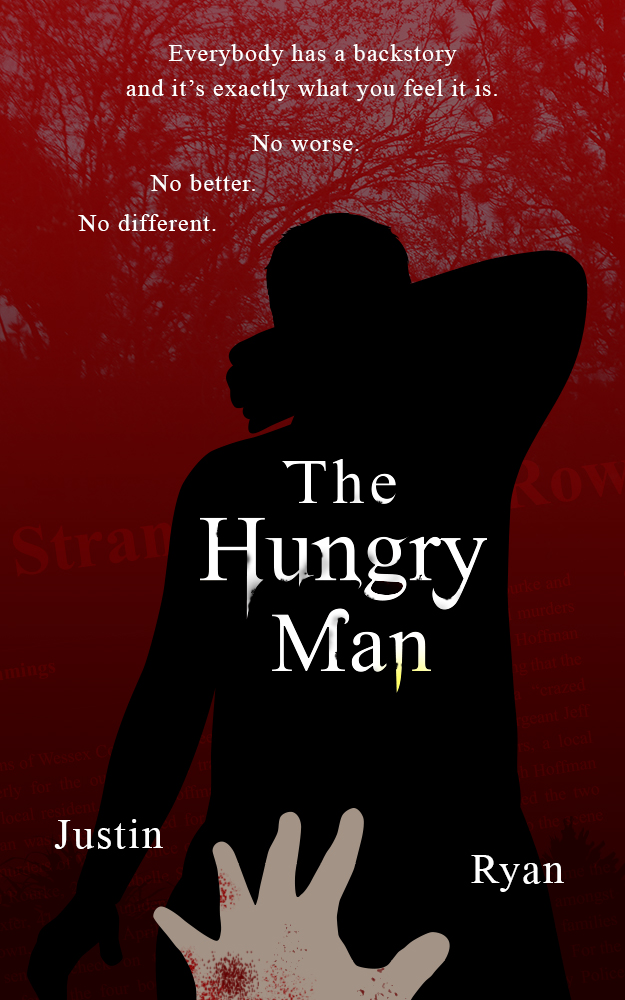 The Hungry Man (2015), eBook Cover, 1st and 2nd Edition.jpg